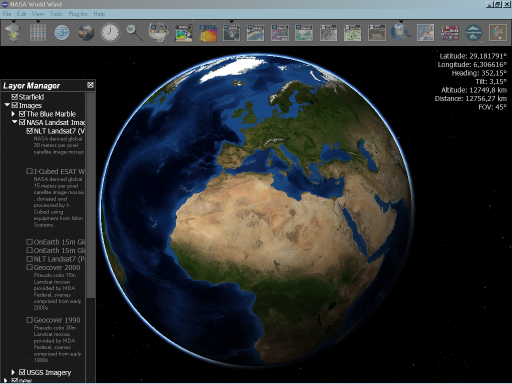 NASA World Wind - screenshot from version 1.4.0 showing Blue Marble Next Generation layer for June; with stars, atmosphere and sun shading enabled.